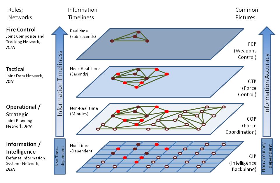 Four layers of the networks of the US Forces. The JCTN (Joint Composite and Tracking Network) is the network with Cooperative Engagement Capable units. The JDN (Joint Data Network) is the TADIL network with the Link-16 or other J-series data links. The JPN (Joint Planning Network) is the network with the GCCS series.